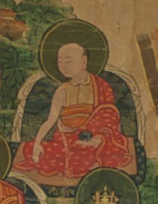 Orgyenpa Rinchen Pel, b.1229? - d.1309, Kagyu monk